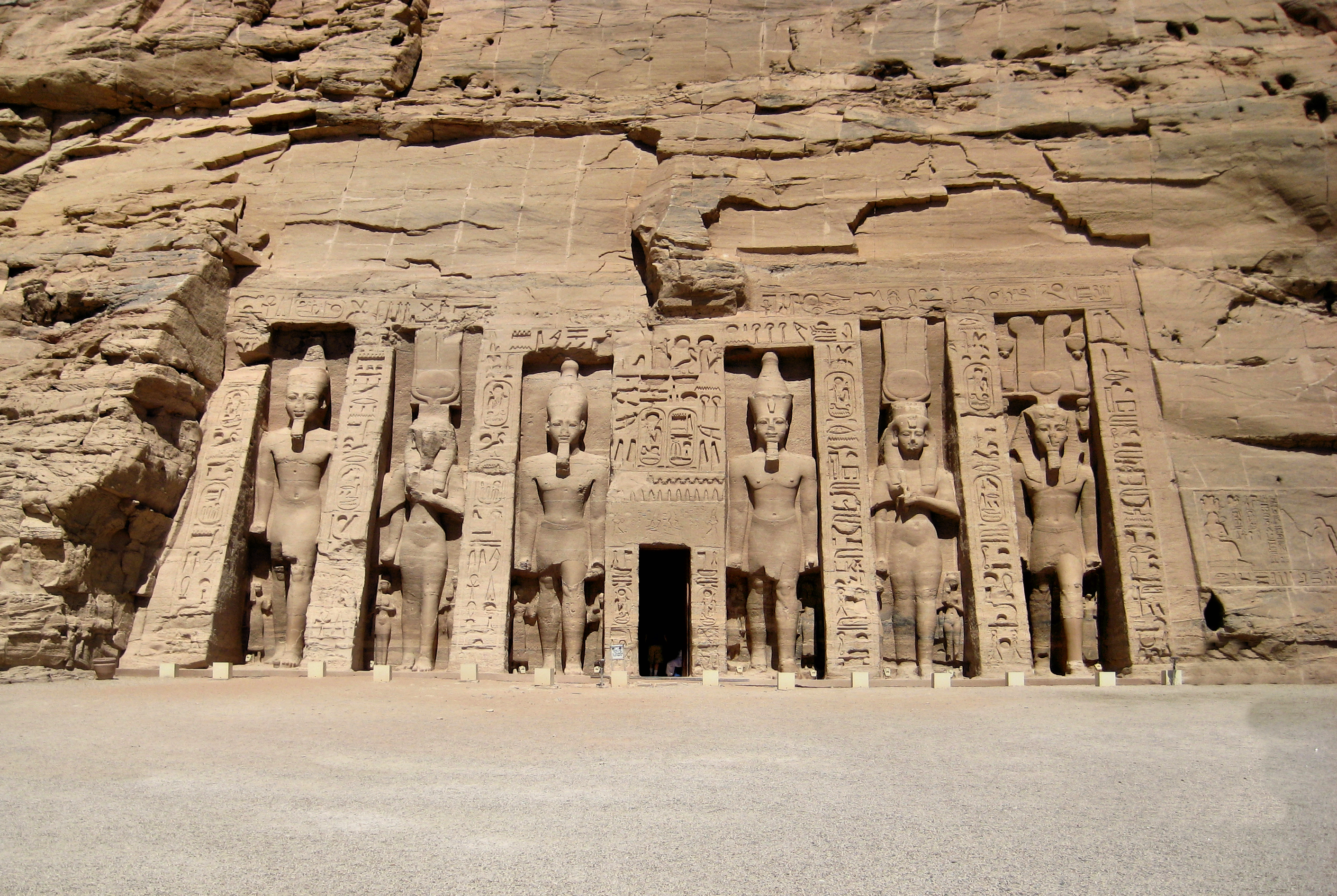 Hathor Temple